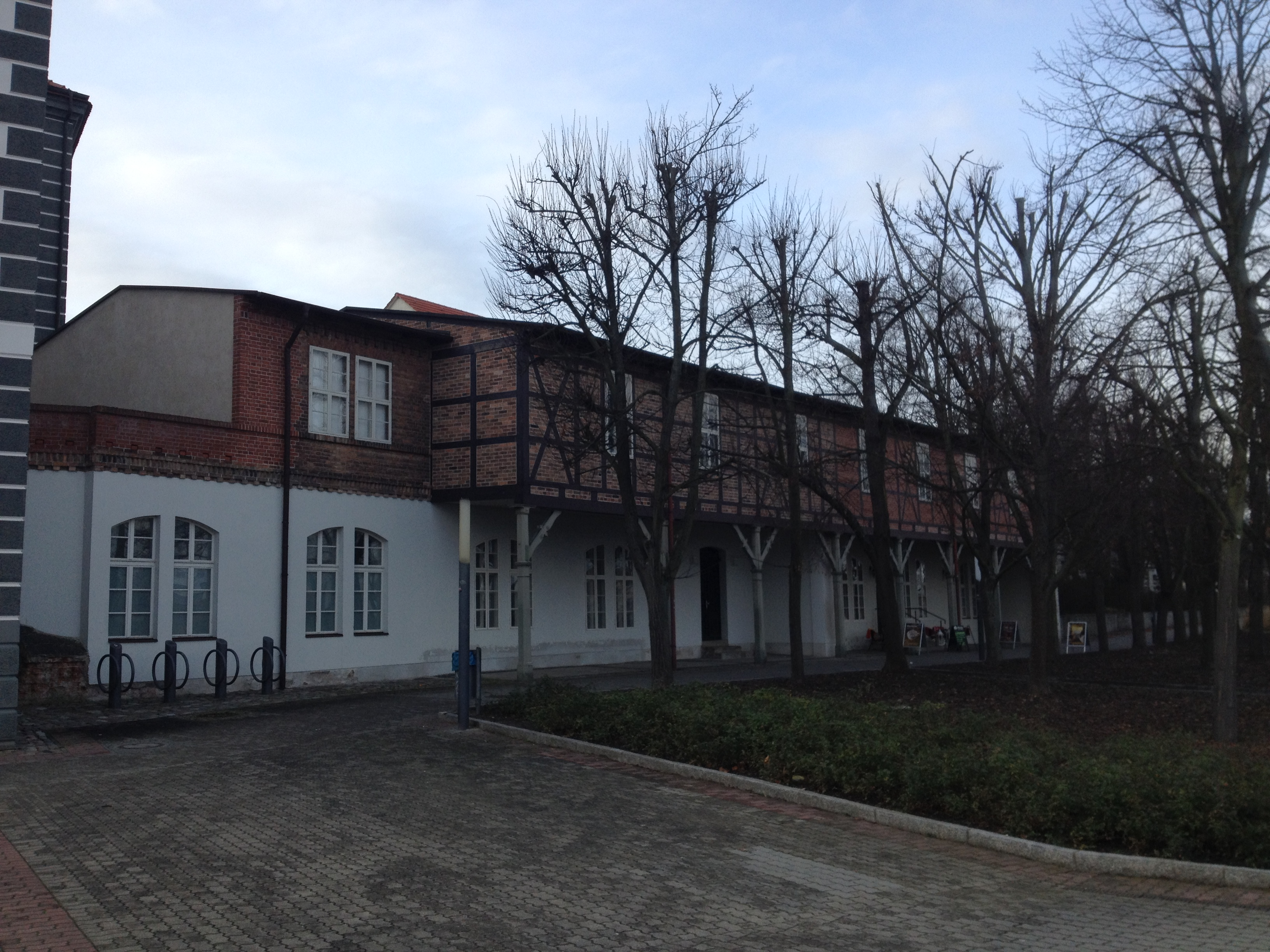 Packhof, Frankfurt (Oder), Germany